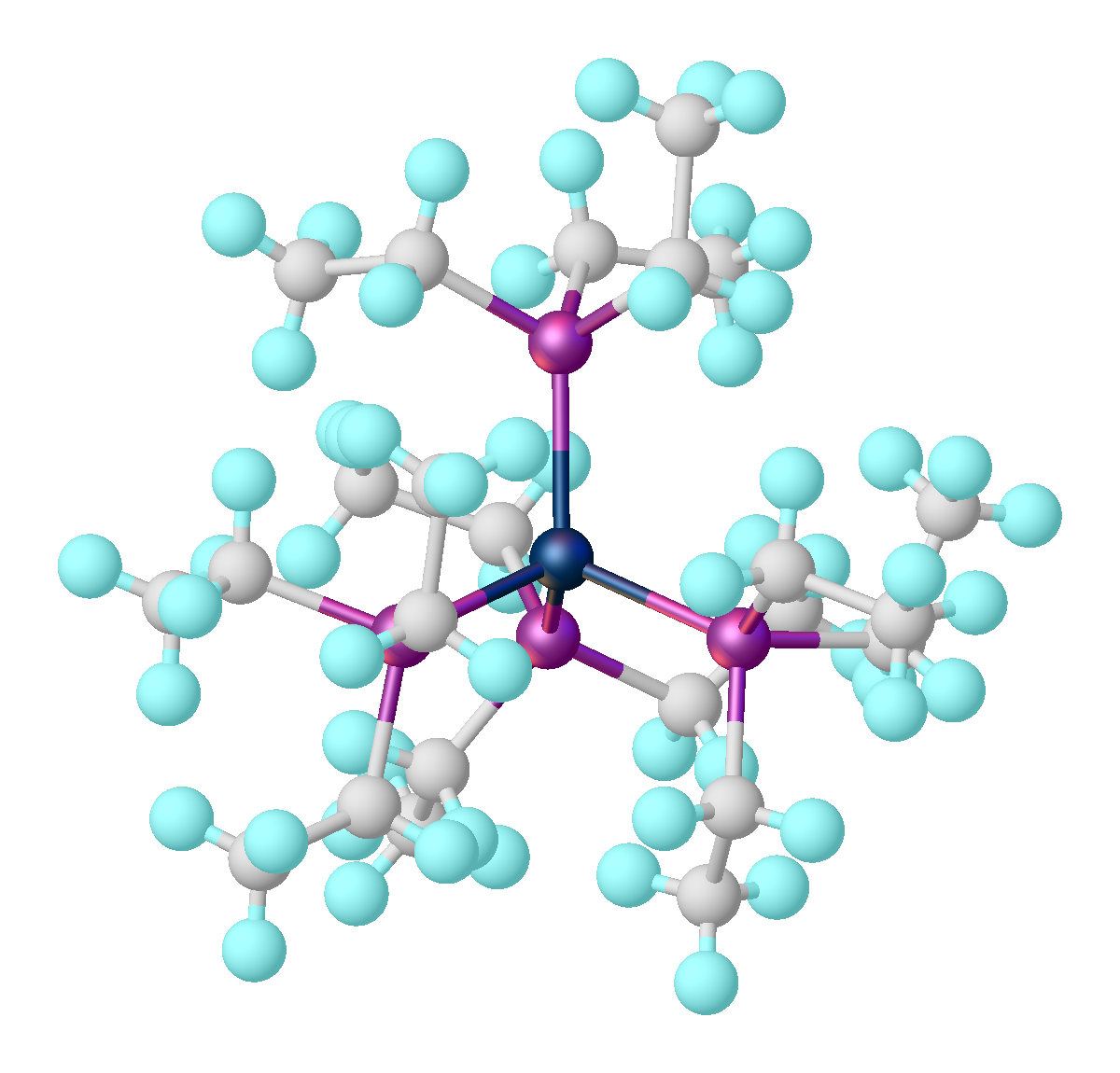 structure of Pt(PEt3)4 from doi 10.1021/om501087u